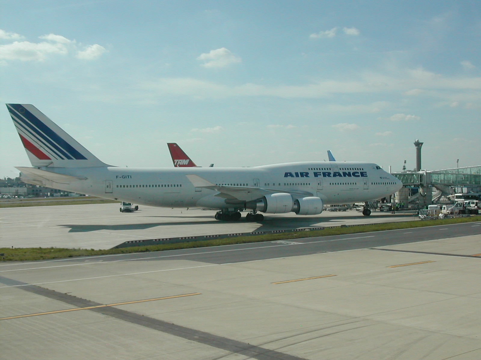 Air France Boeing 747-400 F-GITI at CDG Terminal 2A